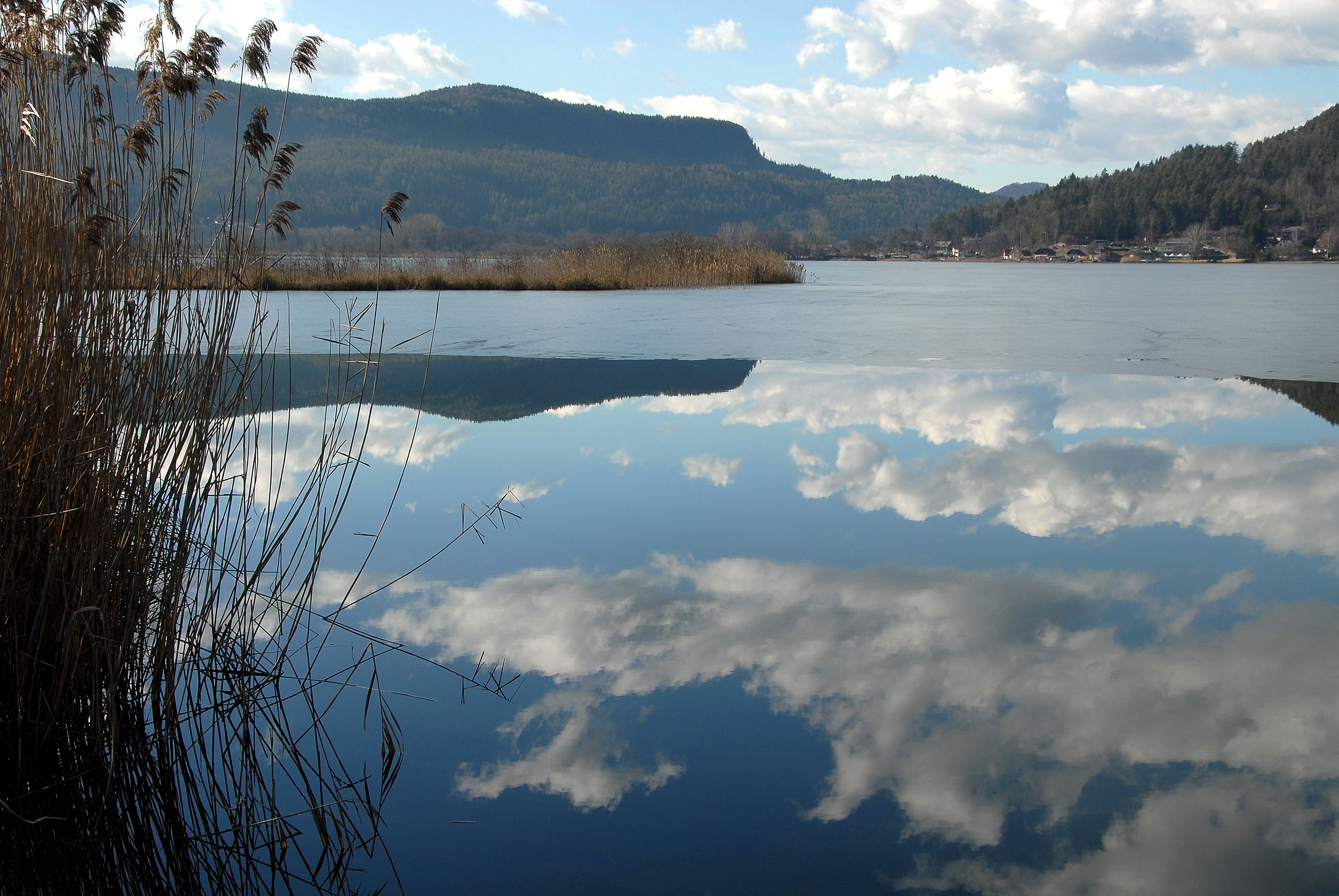 Foehn-mood upon the Lake Keutschach (with melting ice), municipality Keutschach am See, district Klagenfurt-Land, Carinthia, Austria